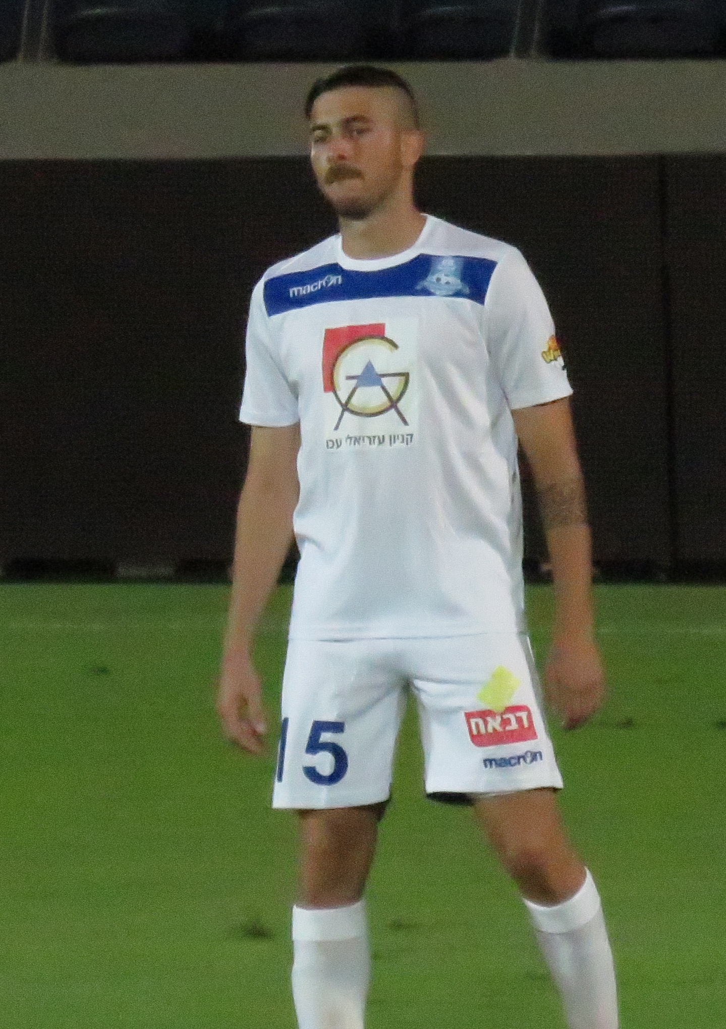 Bnei Yehuda Tel Aviv vs. Hapoel Acre - August 31, 2015